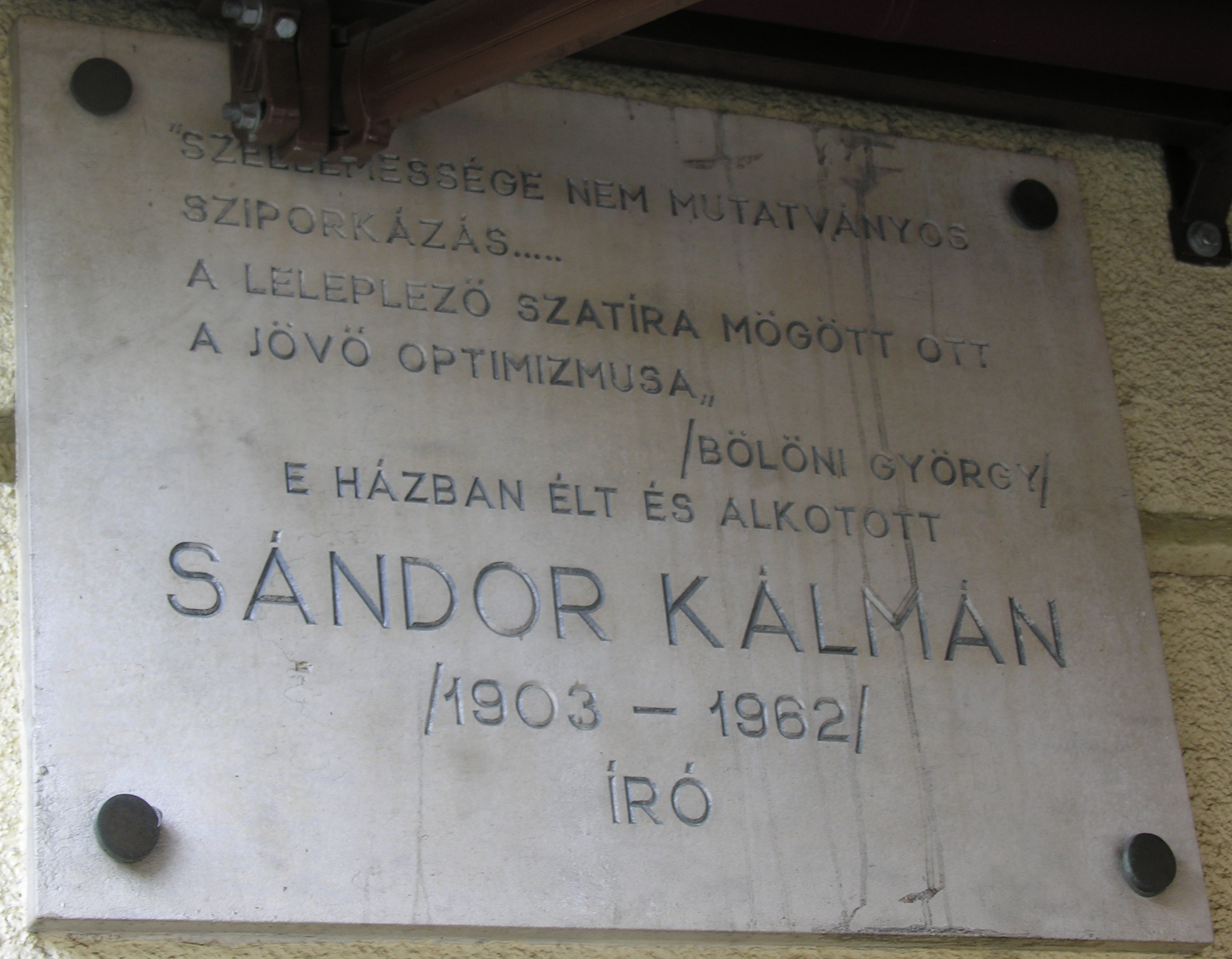 Commemorative plaque of Kálmán Sándor in Budapest District V, Szent István Boulevard No 9